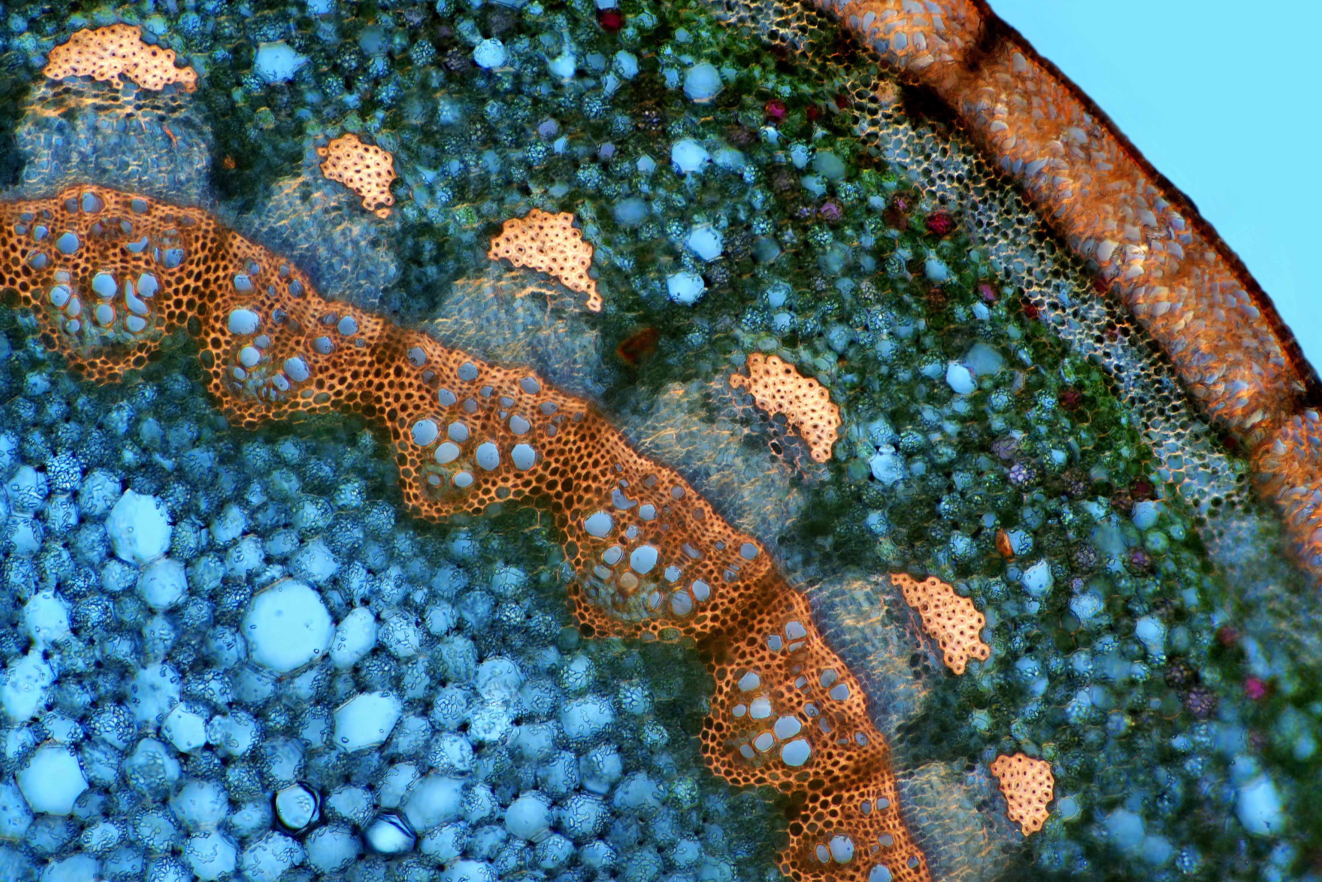 The image presents transversal cross-section through Creeper stalk. Vascular bundles are visible. Magnification is 100X. Technique of the illumination: polarized light.